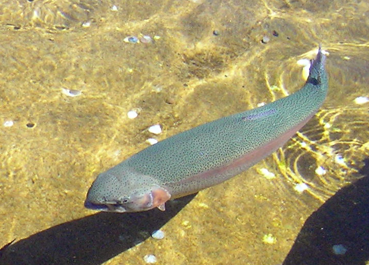 Rainbow trout in show pond at Giant Springs State Park and Giant Springs Trout Hatchery, Great Falls, Montana, USA